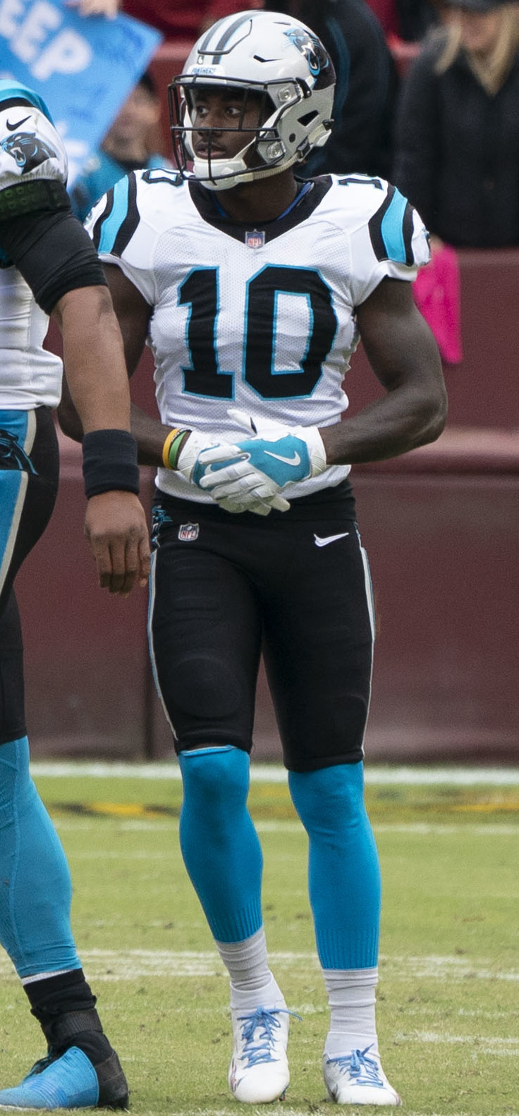 Carolina Panthers and Washington Redskins players during a 2018 game at FedEx Field